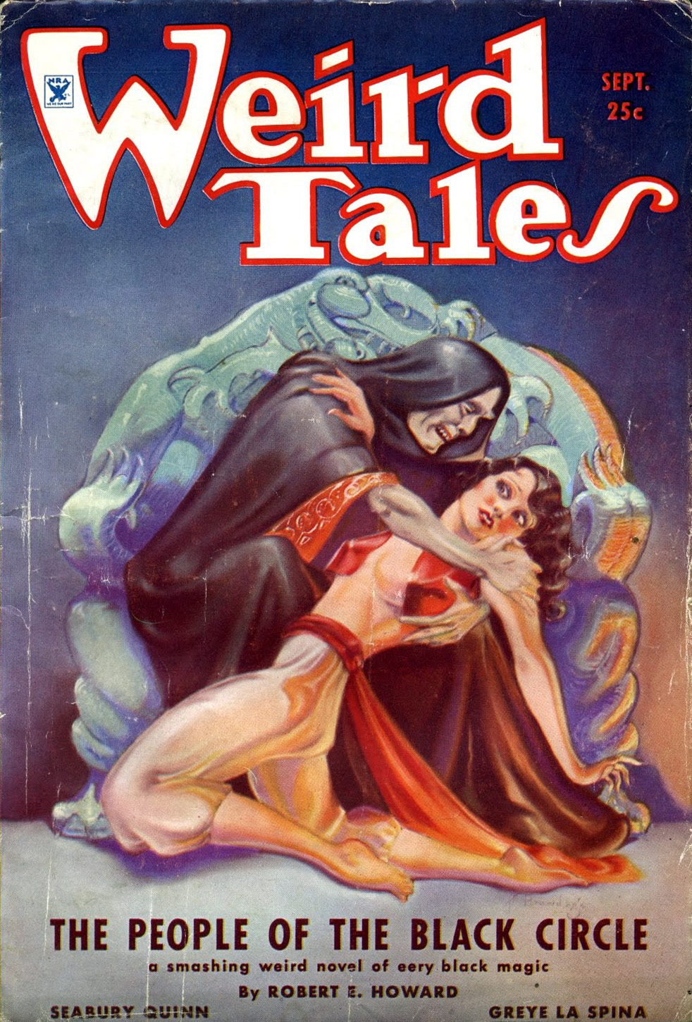 Cover of Weird Tales (September 1934): The feature story is Robert E. Howard's "The People of the Black Circle".